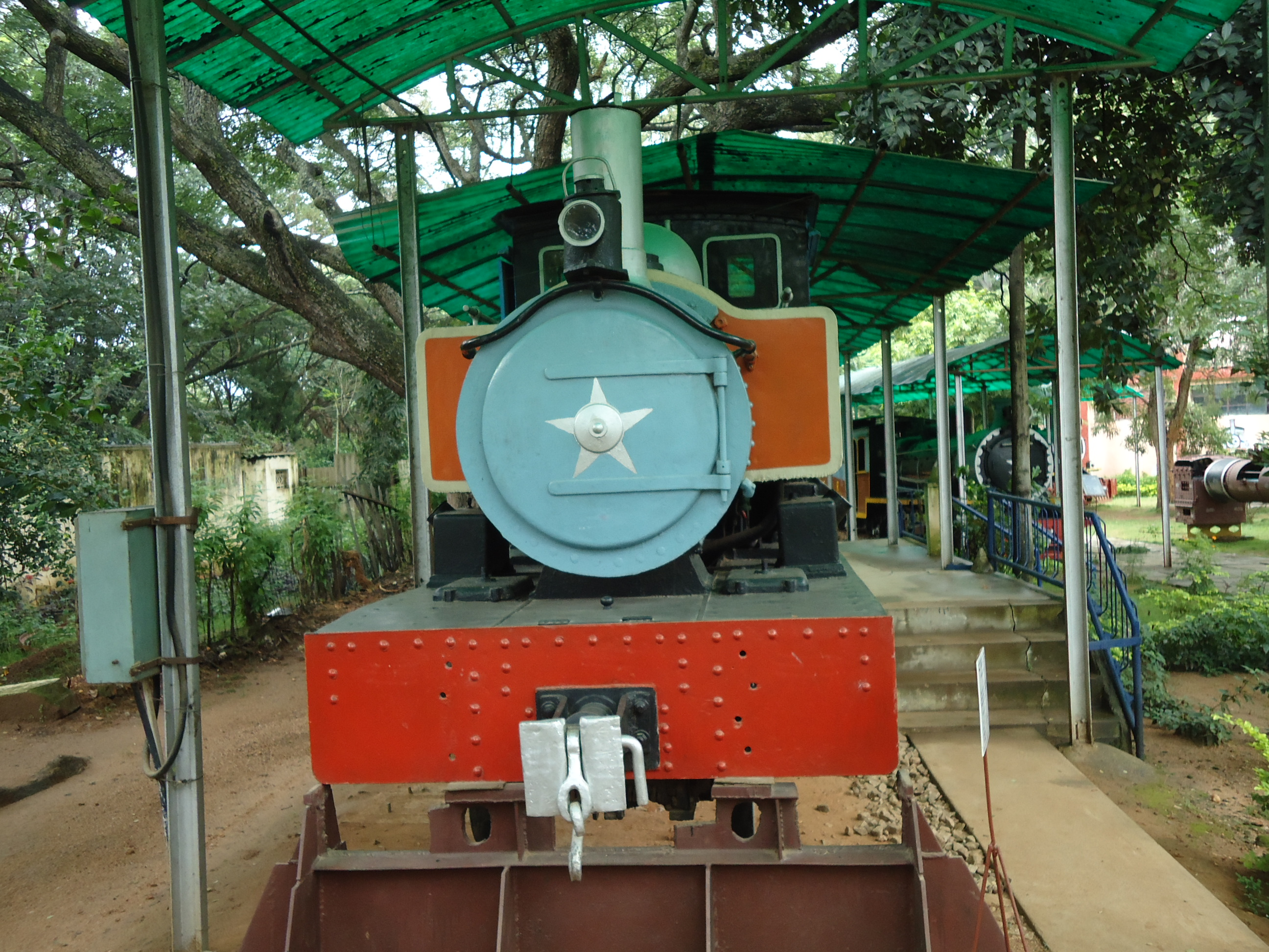 Model of train engine in Mysore Railway Museum